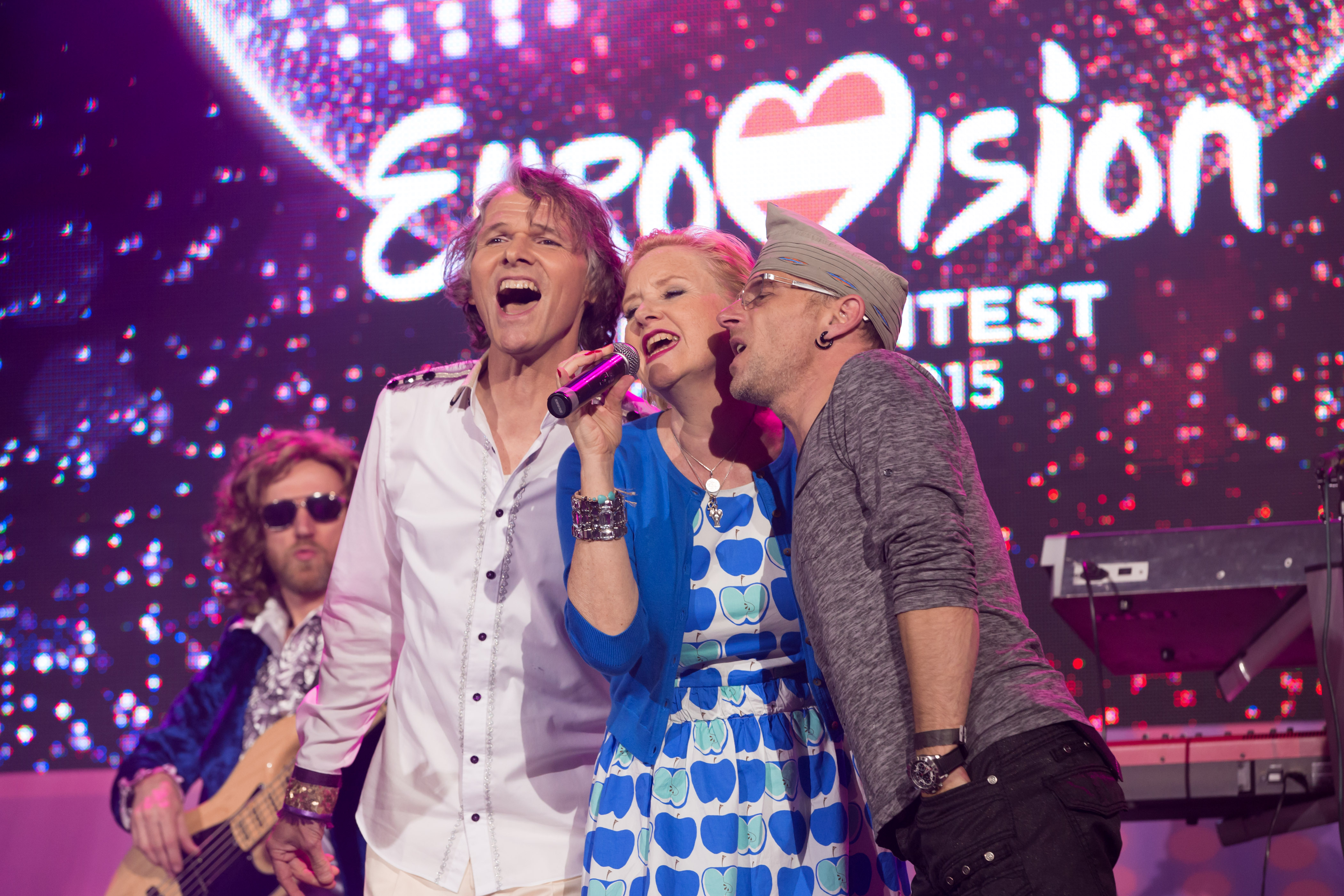 Michael Scheickl and Elisabeth "Lizzi" Engstler, as duo Mess participants of the Eurovision Song Contest 1982, and Thomas Forstner, participant of the Eurovision Song Contest 1989 and the Eurovision Song Contest 1991 with The Bad Powells, concert at Eurovision Village on Rathausplatz, a public event location of the Eurovision Song Contest 2015 in Vienna, Austria.